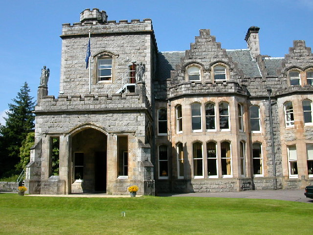 Main entrance Inverlochy Castle.